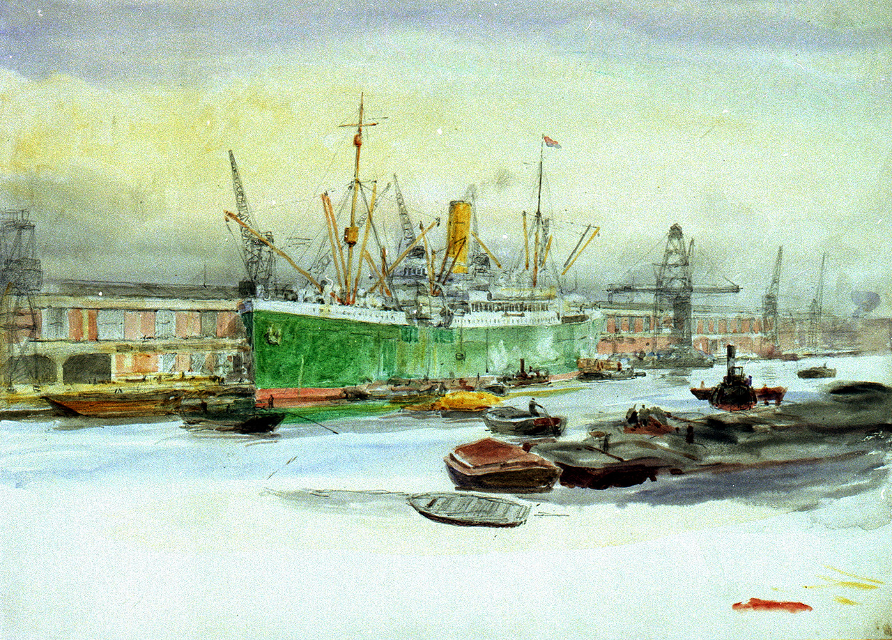 Docks The liner 'Euripides' (1914) berthed alongside the London Docks with warehouses and cranes in the background. 'Euripides' belonged to G. Thompson & Co Ltd, (Aberdeen White Star Line) and she was used as a cargo liner and passenger liner. Although such vessels did visit the London Docks, a large proportion of the goods entering the dock arrived in lighters, which had loaded from vessels berthed in docks further downriver. The extensive storage facilities, conveniently close to the City, had thus come to be regarded and used as an extension of the modern facilities downstream. Docks